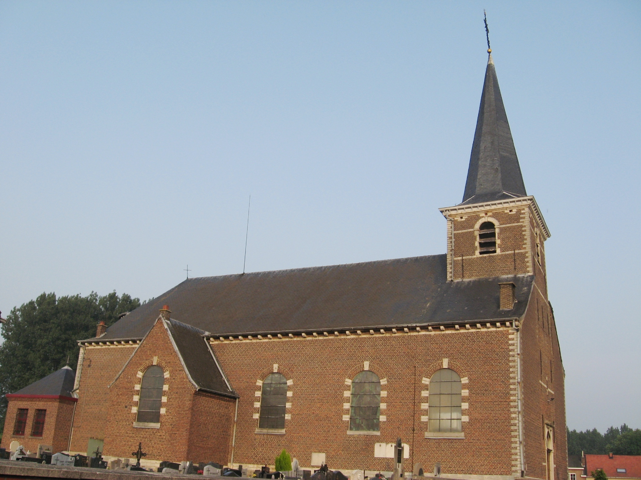 Church of Saint Cyriacus in Budingen, Zoutleeuw, Flemish Brabant, Belgium